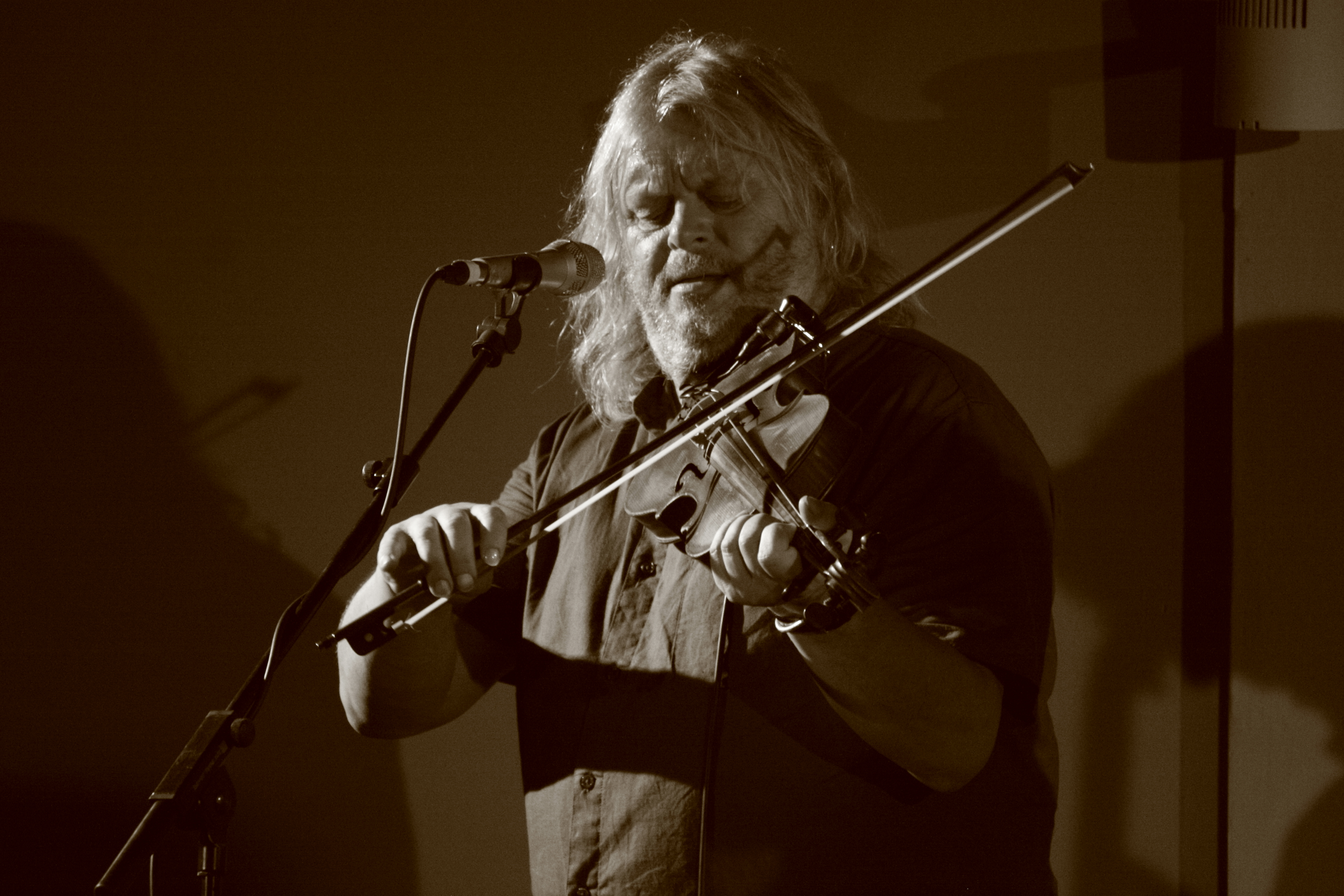 Phil Beer Show of Hands, 20th May 2009, Harberton Village Hall